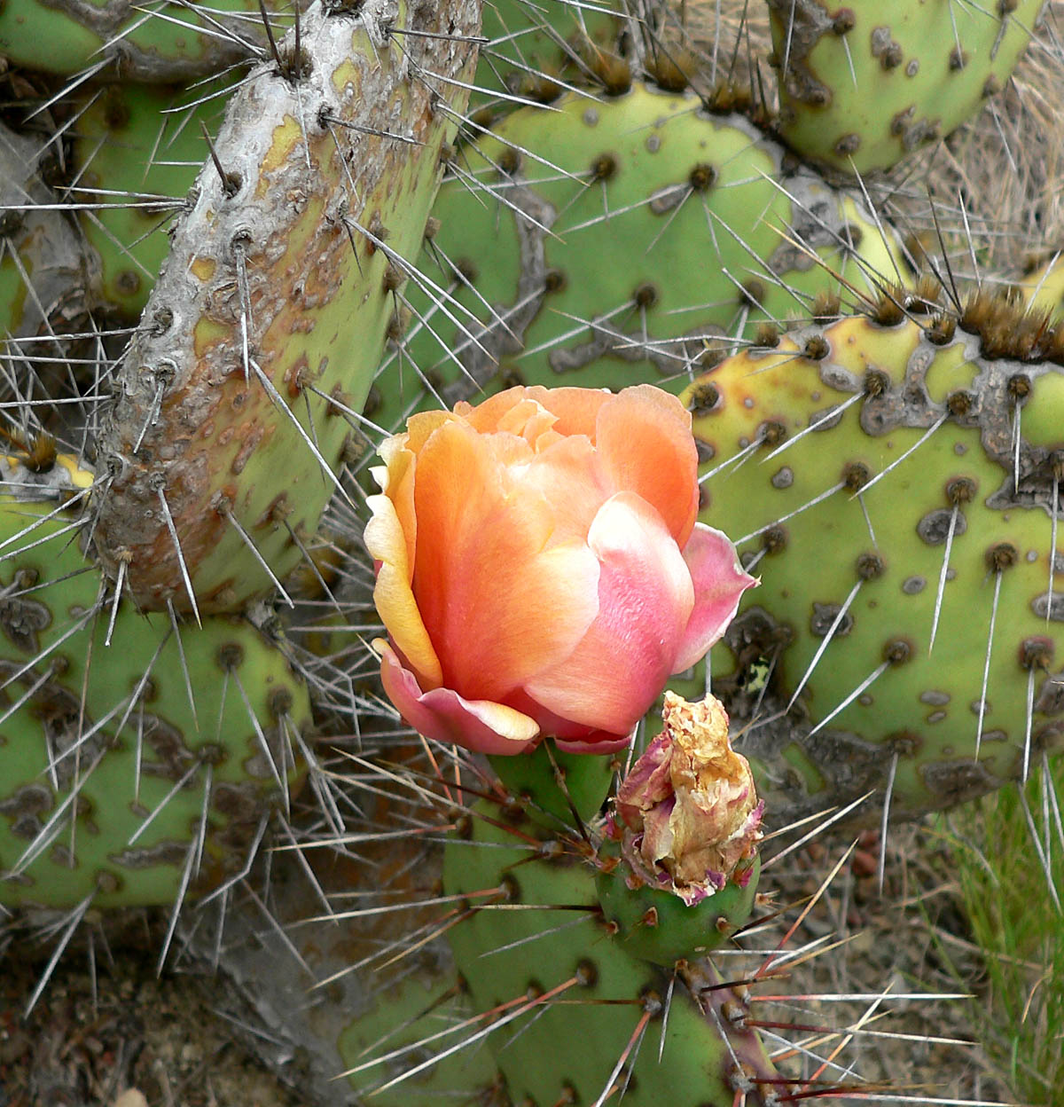 Photo of Opuntia phaeacantha at the University of California Botanical Garden